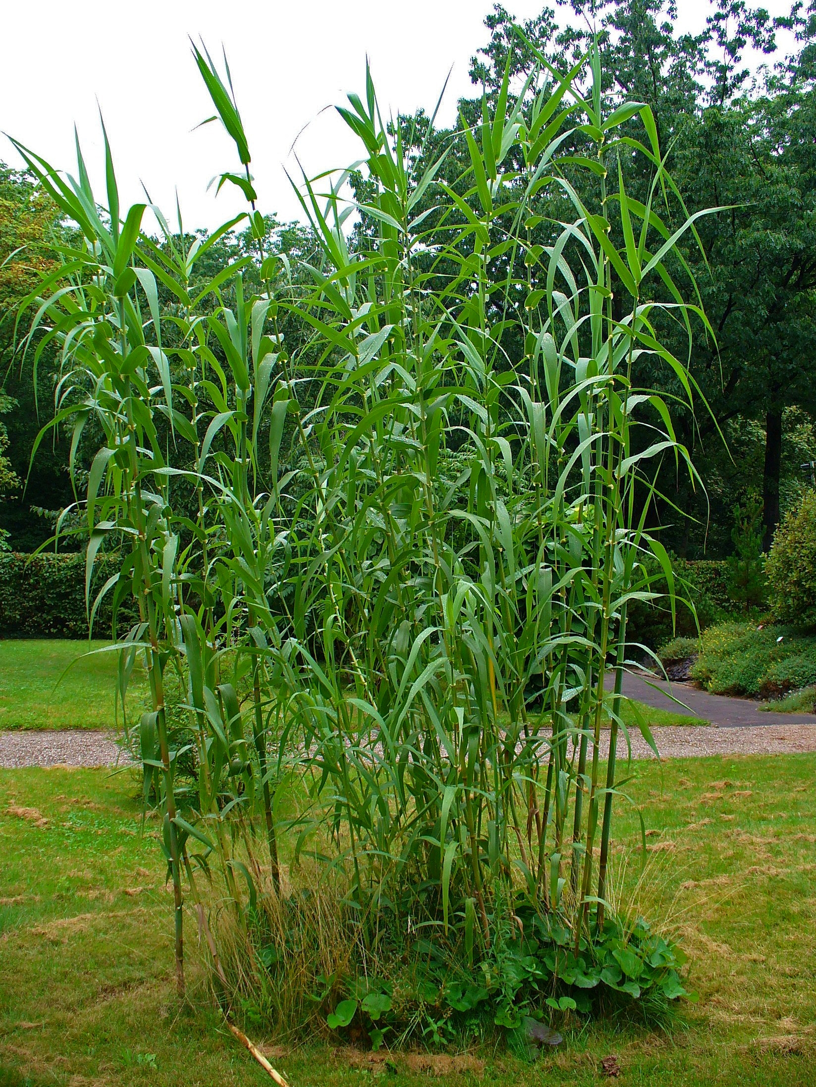 Arundo donax, Poaceae, Giant Cane, habitus; Botanical Garden KIT, Karlsruhe, Germany. The roots are used in homeopathy as remedy: Arundo mauretanica (Arund-d.)